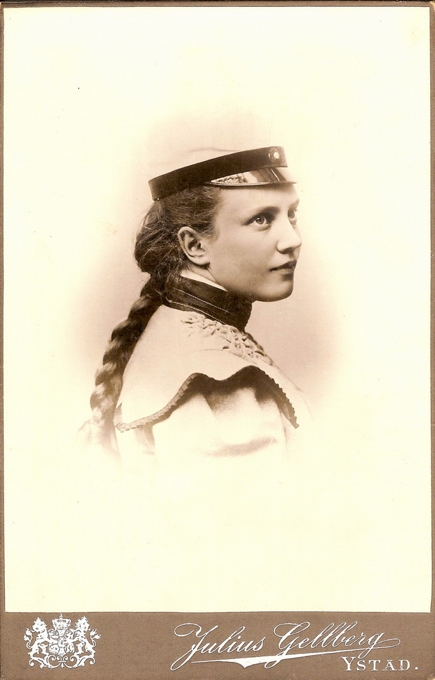 Hildur Sandberg (1881-1904), Swedish student (medicin) at Lund university, Sweden, and radical social democrat.